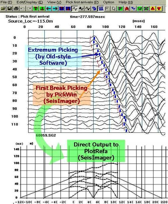 First Break Picking in case of Low Quality recording: Picking by extremum and Picking by wave break (PickWin of SeisImager software)